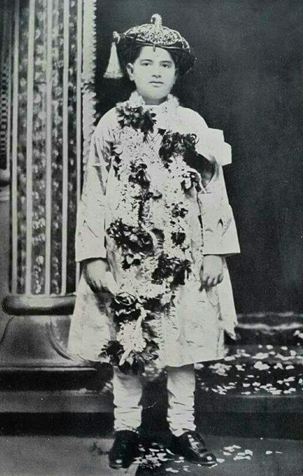 यशवंतराव मुकने की बचपन की यादें